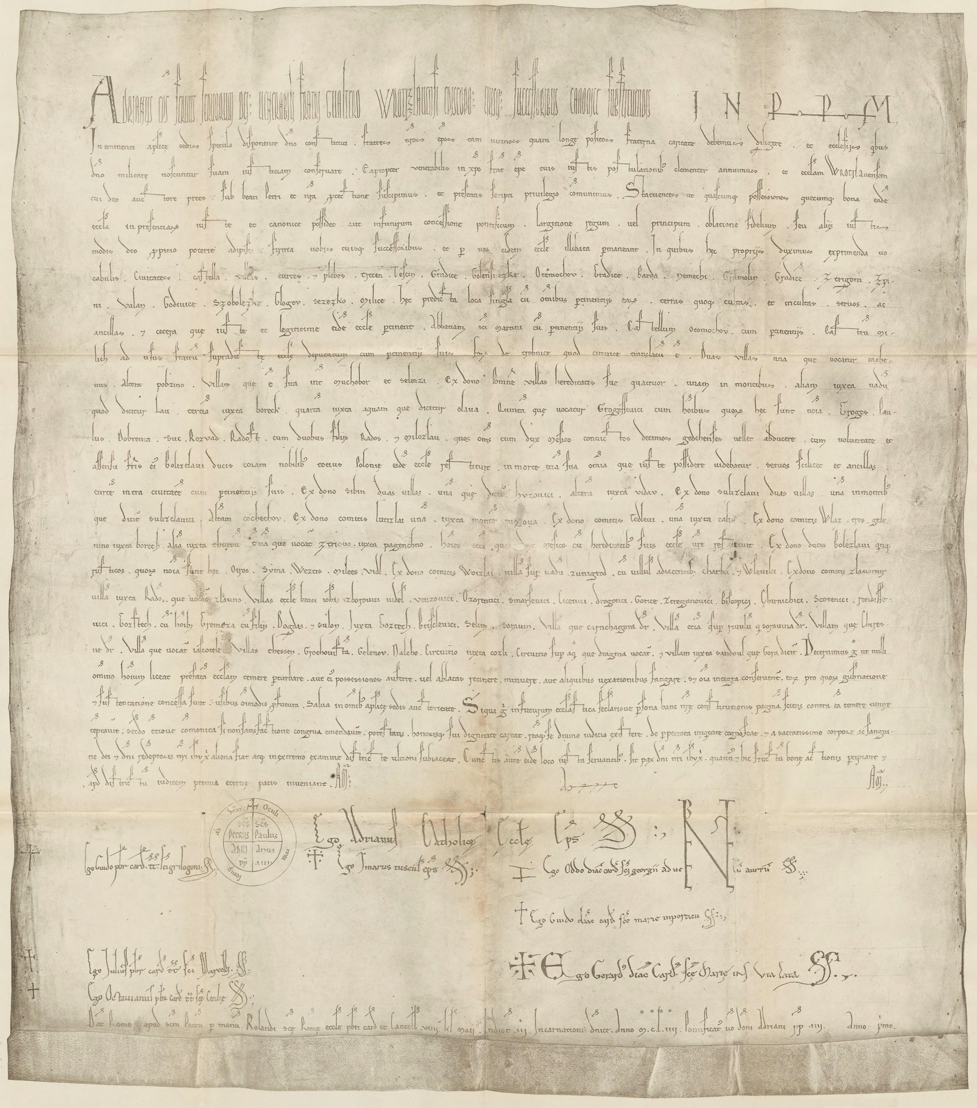 Bull of Wroclaw, 12th century.